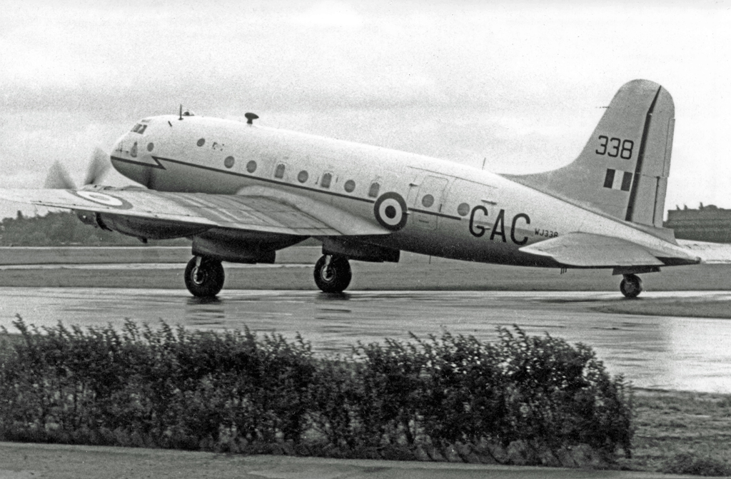 Handley Page Hastings C.2 WJ338 of 511 Squadron RAF at Manchester Airport in 1952